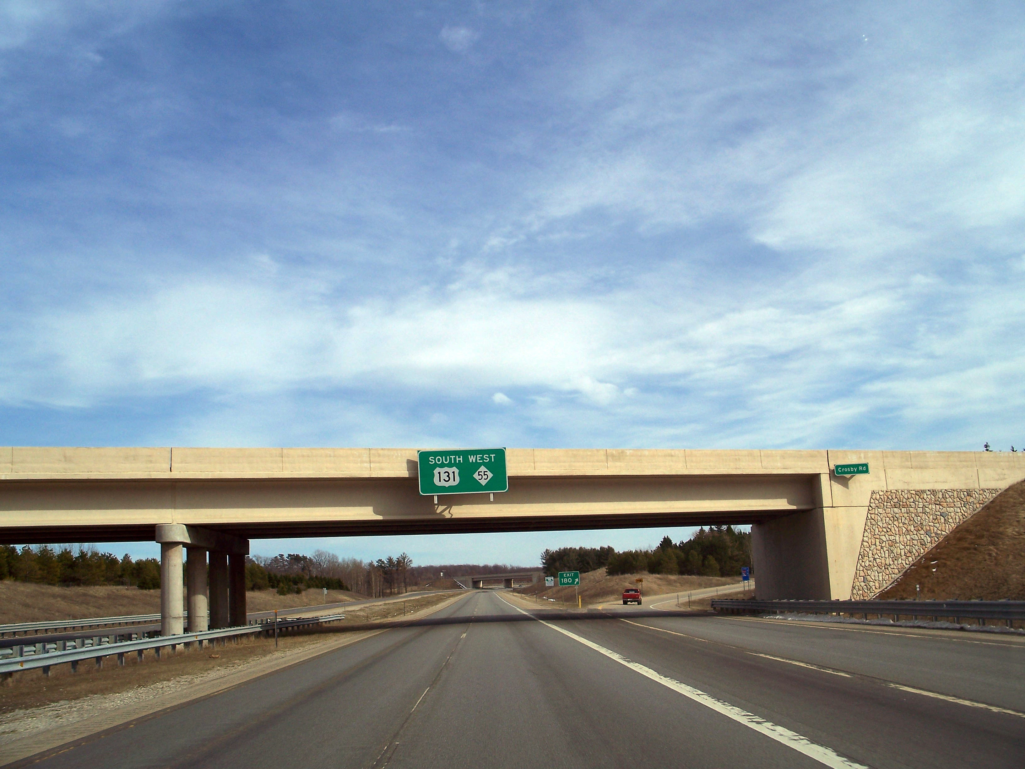 This is where M-55 joins US-131 east of Cadillac.